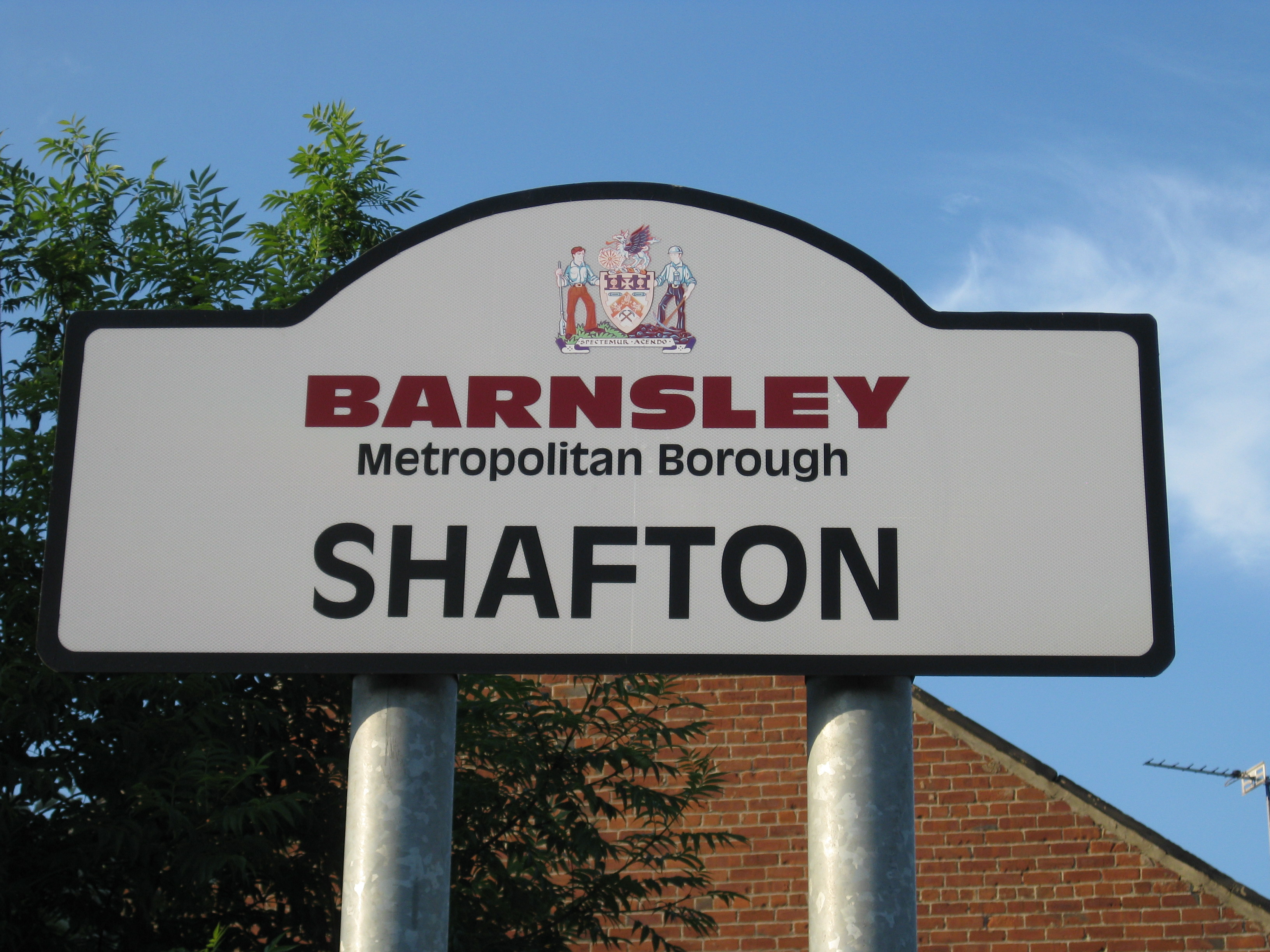 Sign at entry to Shafton, a village within the Barnsley area